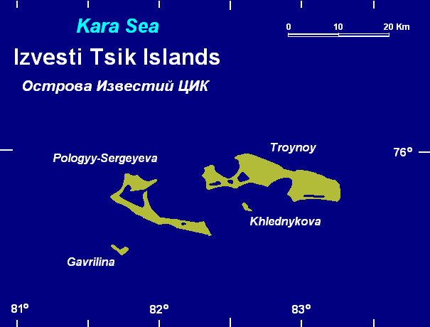 Islands of the Russian Arctic